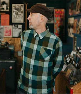 Bruce Pavitt founder of Sub Pop records, 2015